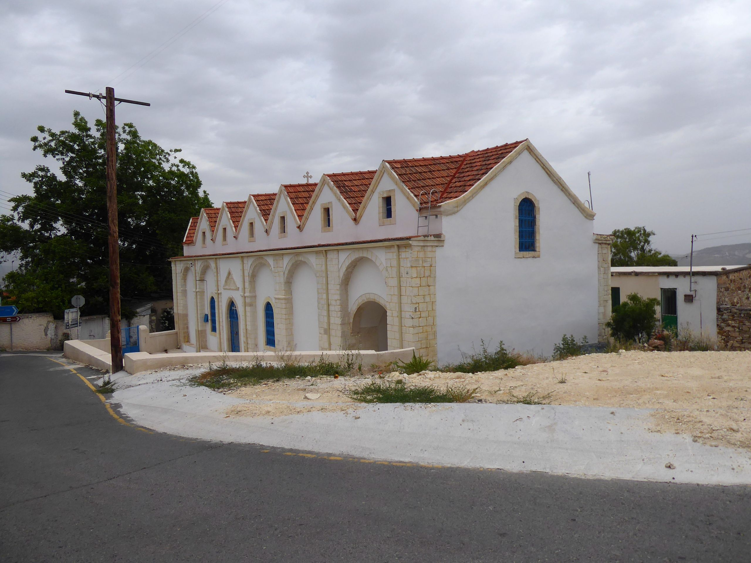 Agios Georgios (Pentalia)